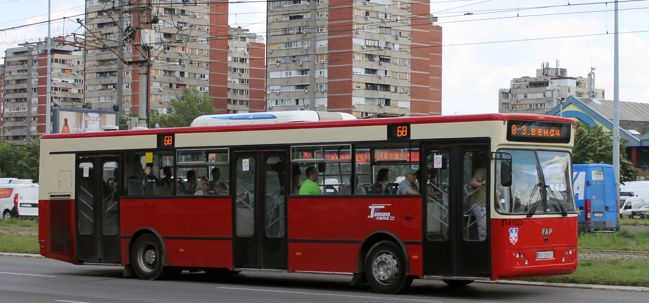 FAP A 537.5 city bus of Tamnava trans private transport company from Belgrade on city bus line No. 68.